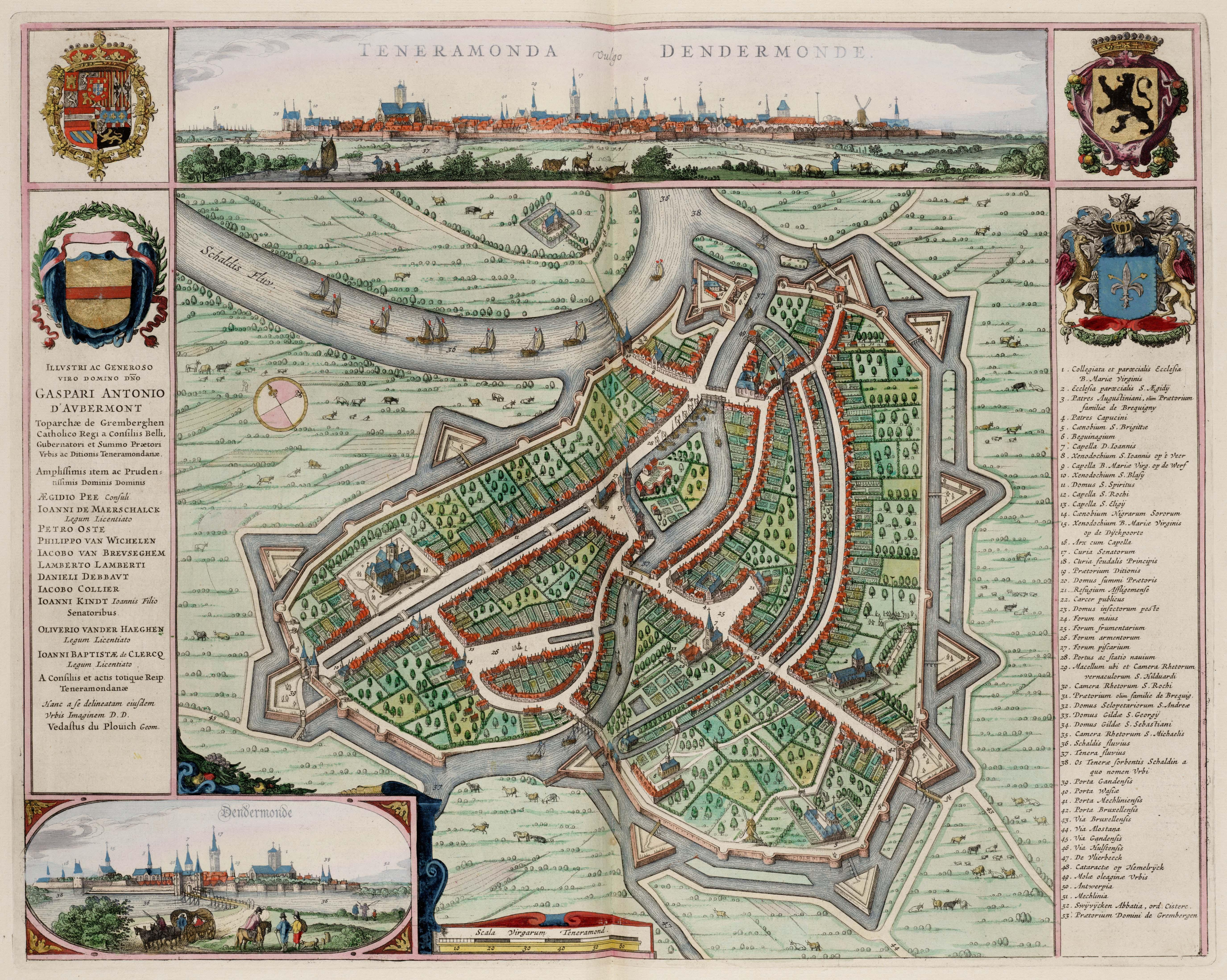 Map of Dendermonde, from the Atlas van Loon.